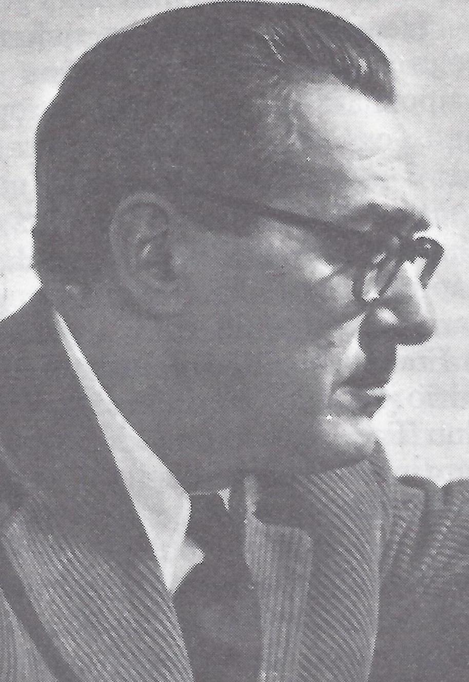 Krešimir Baranović (25 August 1894, Šibenik, Austria-Hungary – 17 September 1975, Belgrade, SR Serbia, SFR Yugoslavia), Croatian composer